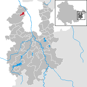 Hartmannsdorf in Thuringia - District Greiz